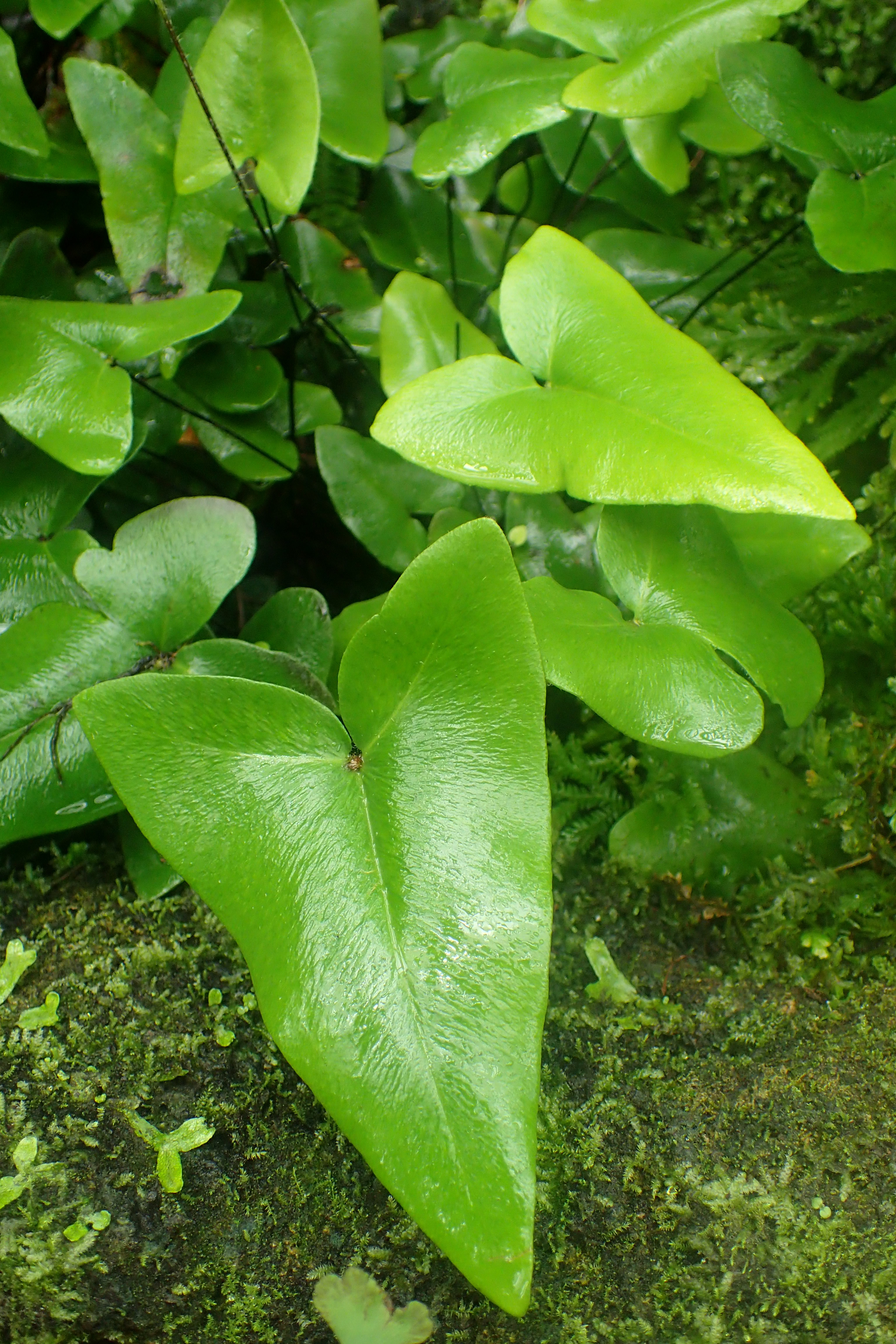 Hemionitis arifolia at Garfield Park Conservatory